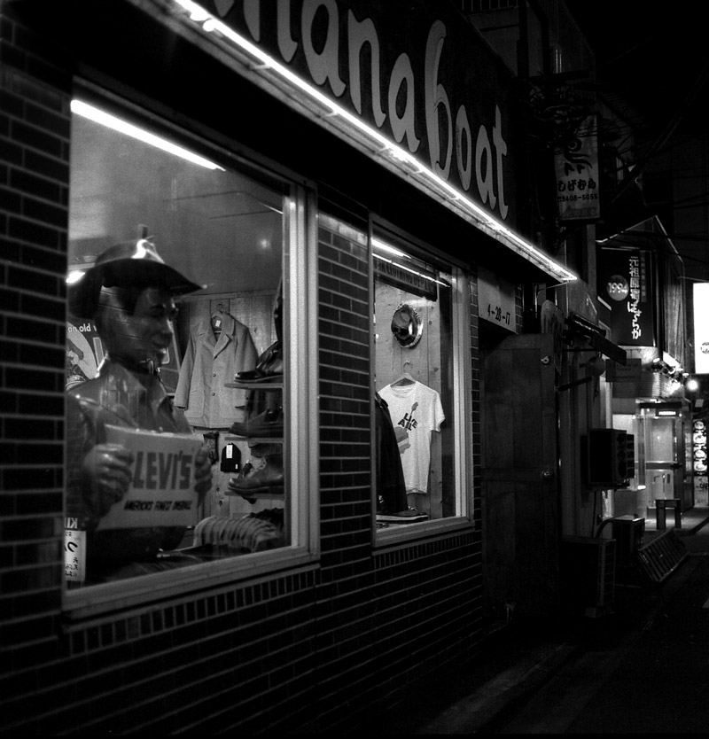 A shop's display at night. Photo taken at Harajuku, Tokyo, Japan with a hasselblad camara.